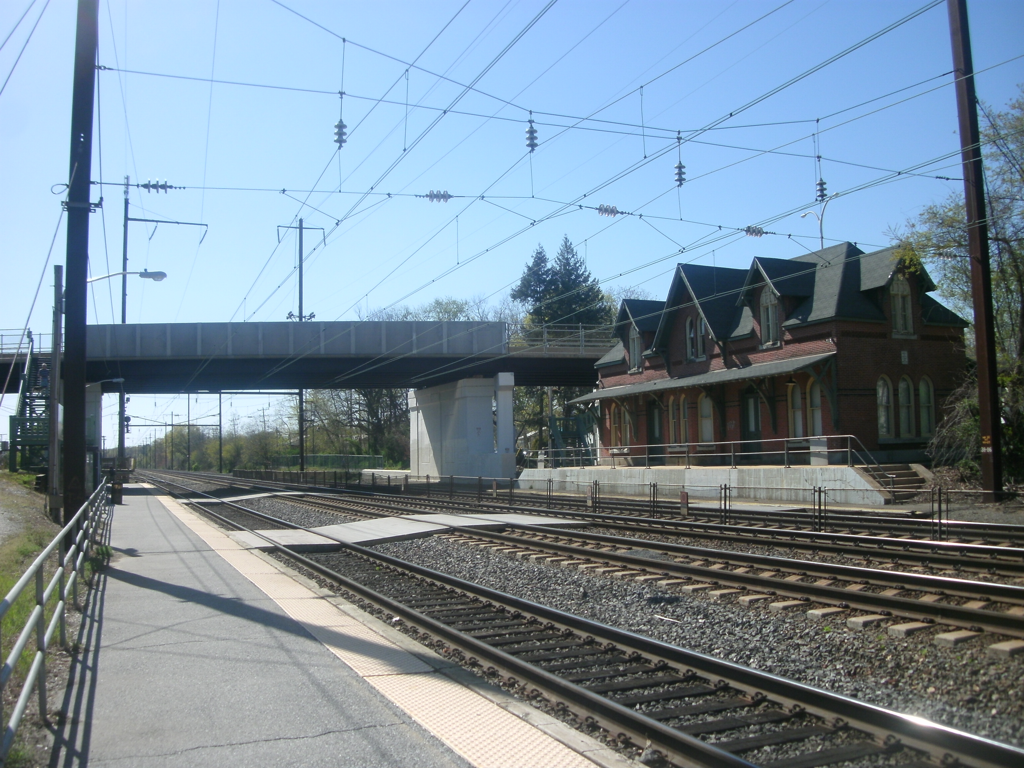 The Amtrak/SEPTA dual station in the city of Newark, Delaware as seen in early April 2012.